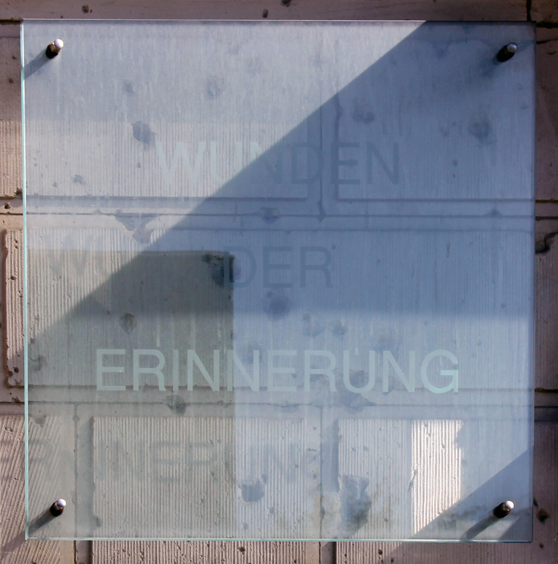 Memorial plaque, Wunden der Erinnerung, Sigismundstraße 4, Berlin-Tiergarten, Deutschland